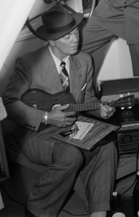 Cliff Edwards playing ukulele with phonograph, 1947